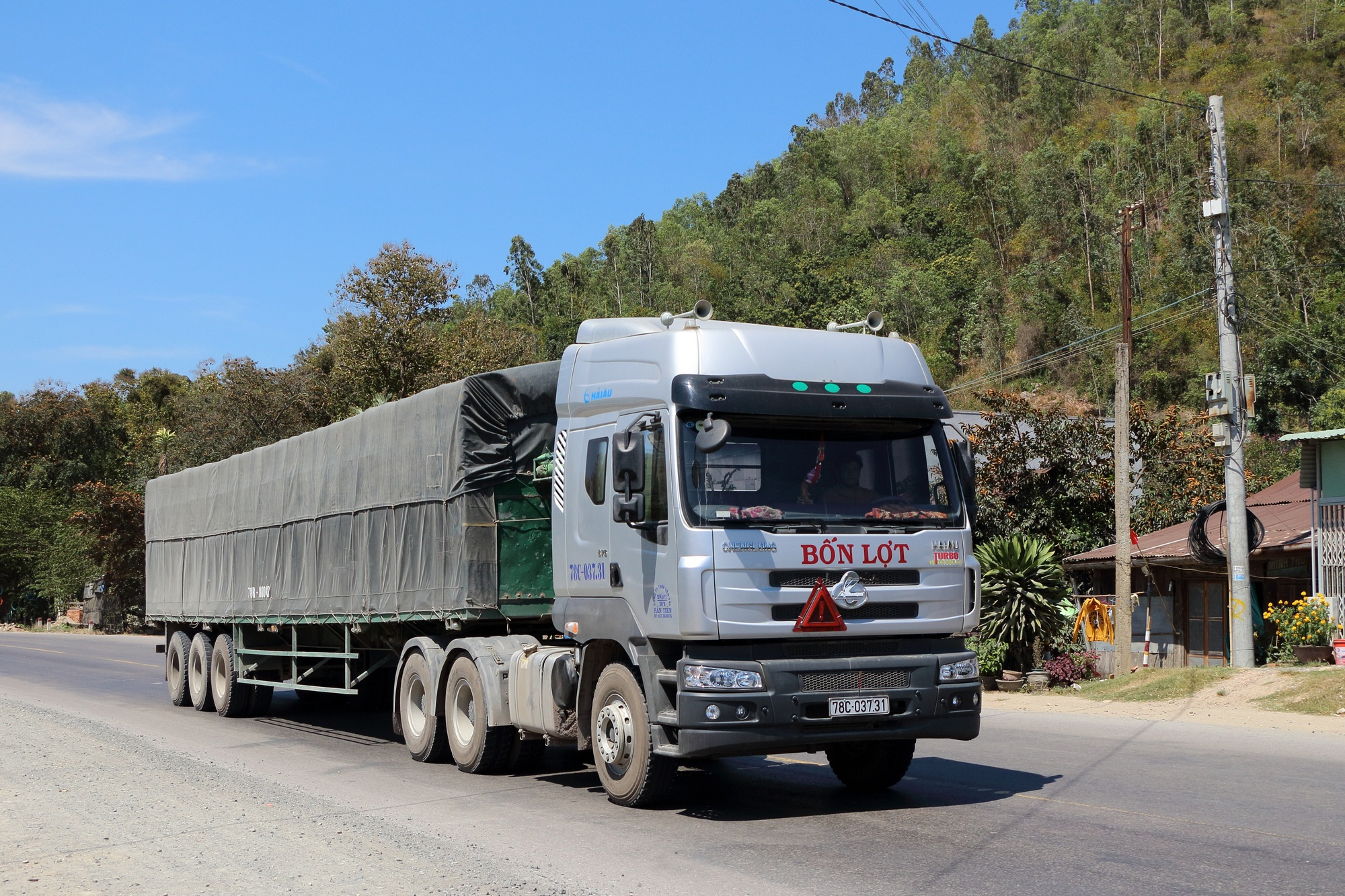 Chenglong truck in Vietnam